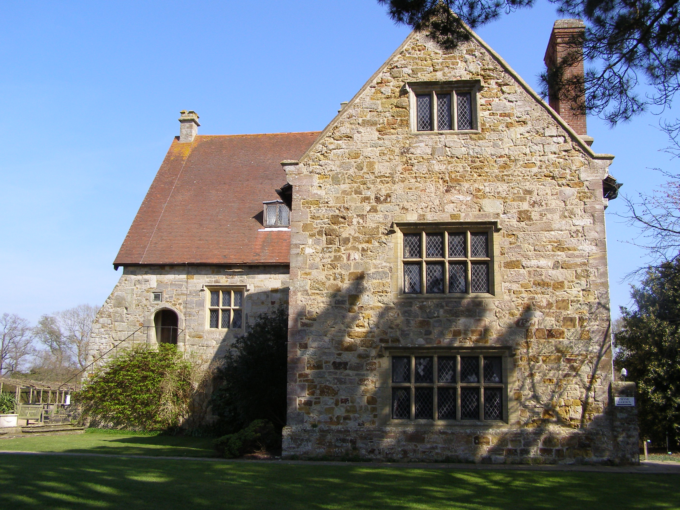 Michelham Priory